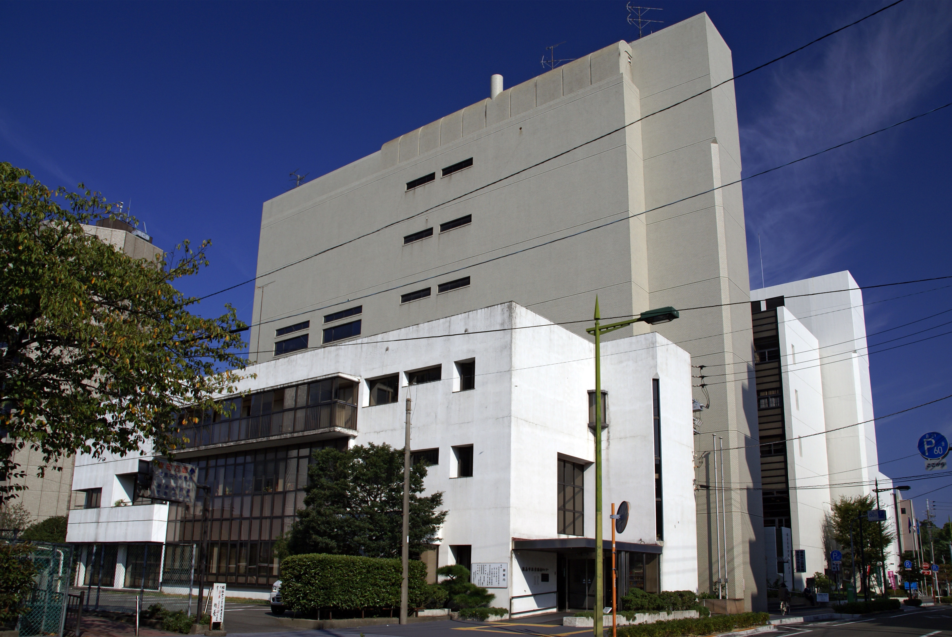 Tokushima Municipal Social Welfare Center in Tokushima, Tokushima prefecture, Japan